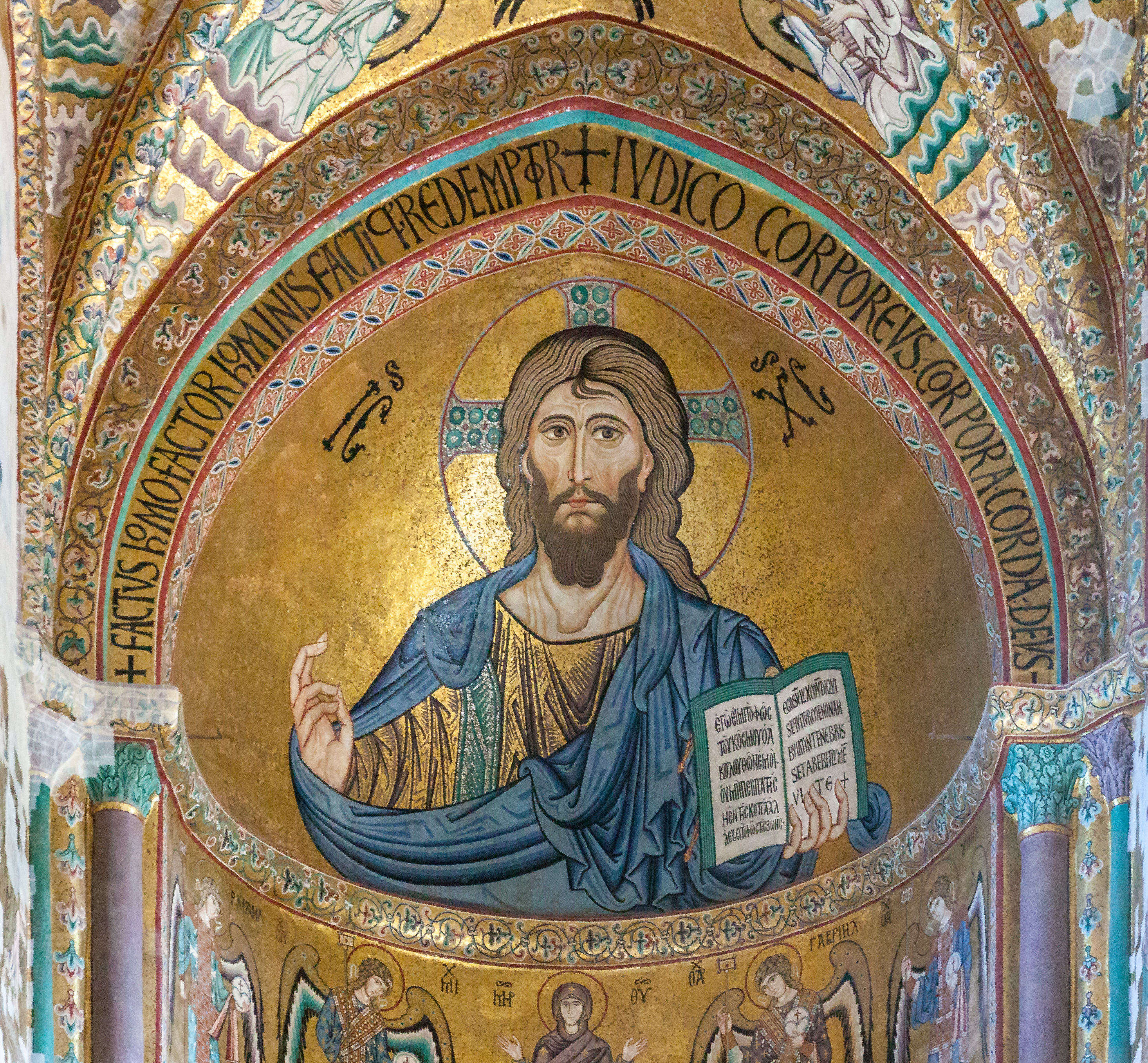 Duomo (Cefalù) - Mosaic of Christ Pantocrator